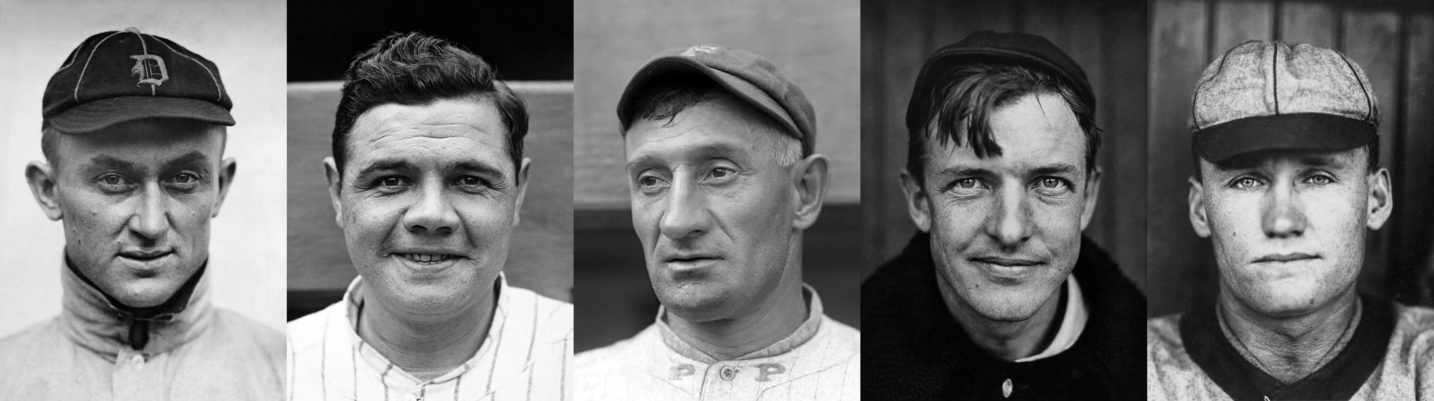 1936 inaugural Baseball Hall of Fame inductees: L-R: Ty Cobb, Babe Ruth, Honus Wagner, Christy Mathewson, Water Johnson